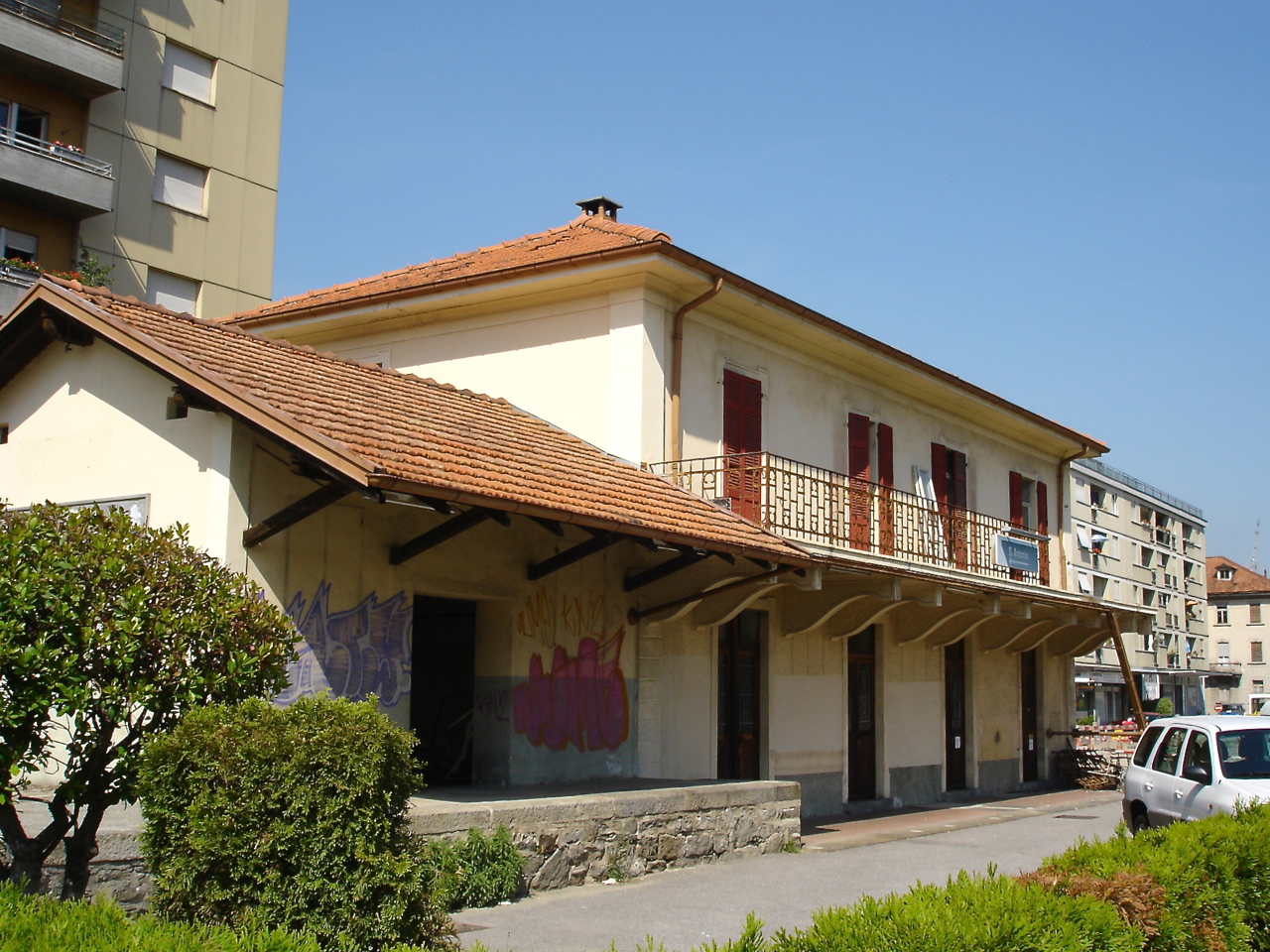 Locarno S. Antonio train station.